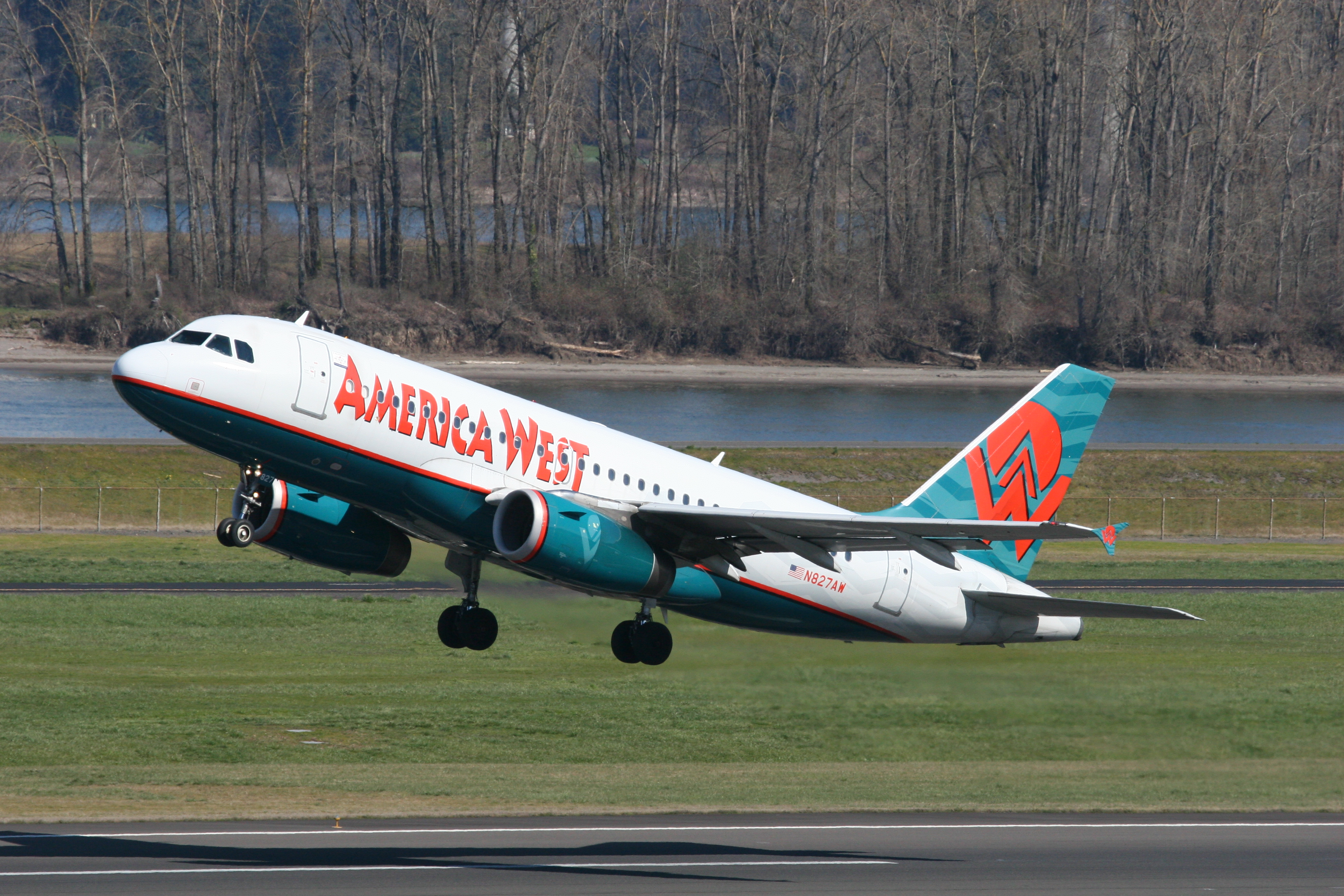 America West/US Airways A319 gets airborn quickly from PDX